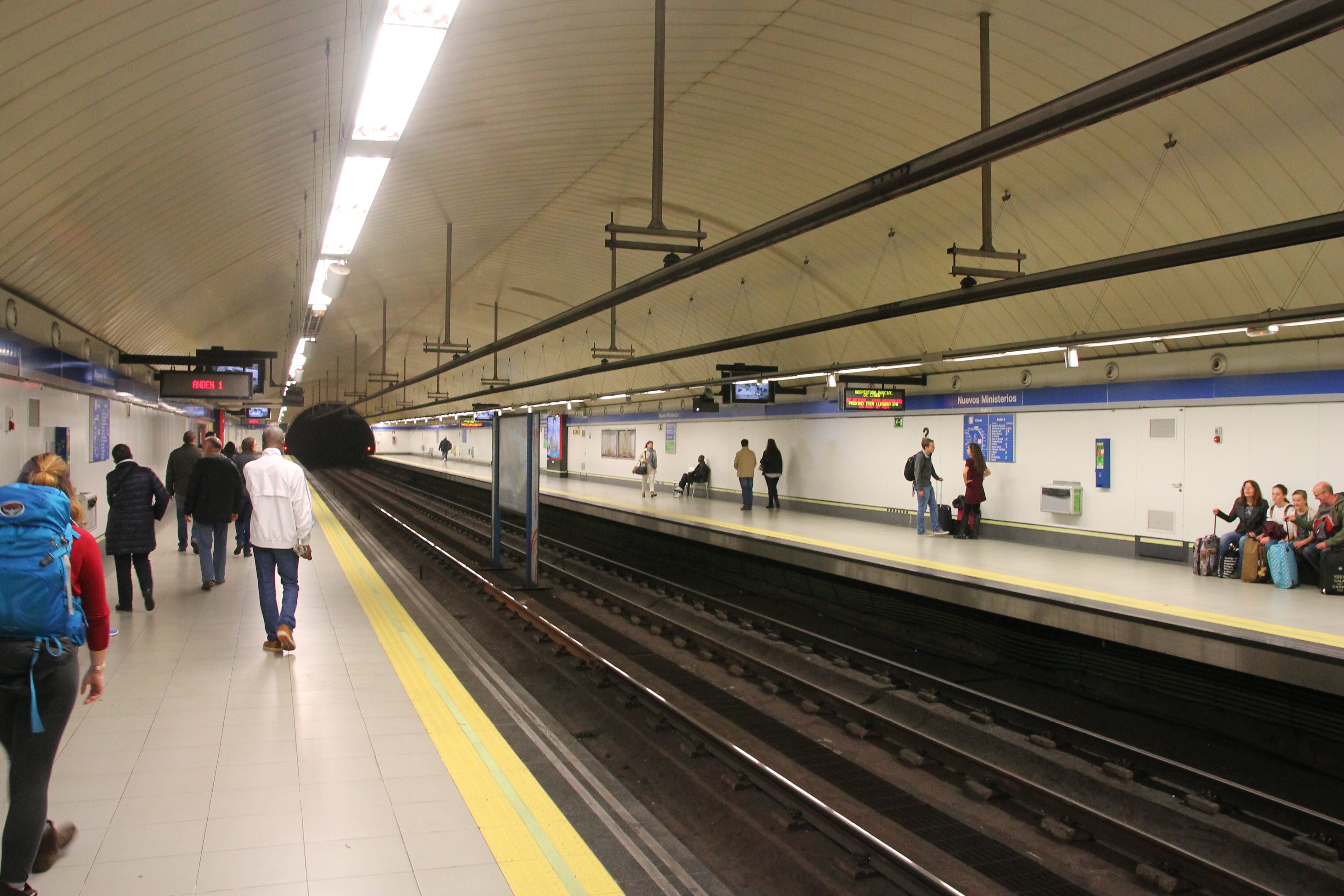 Platform of the Nuevos Ministerios metro station, line 6, Madrid